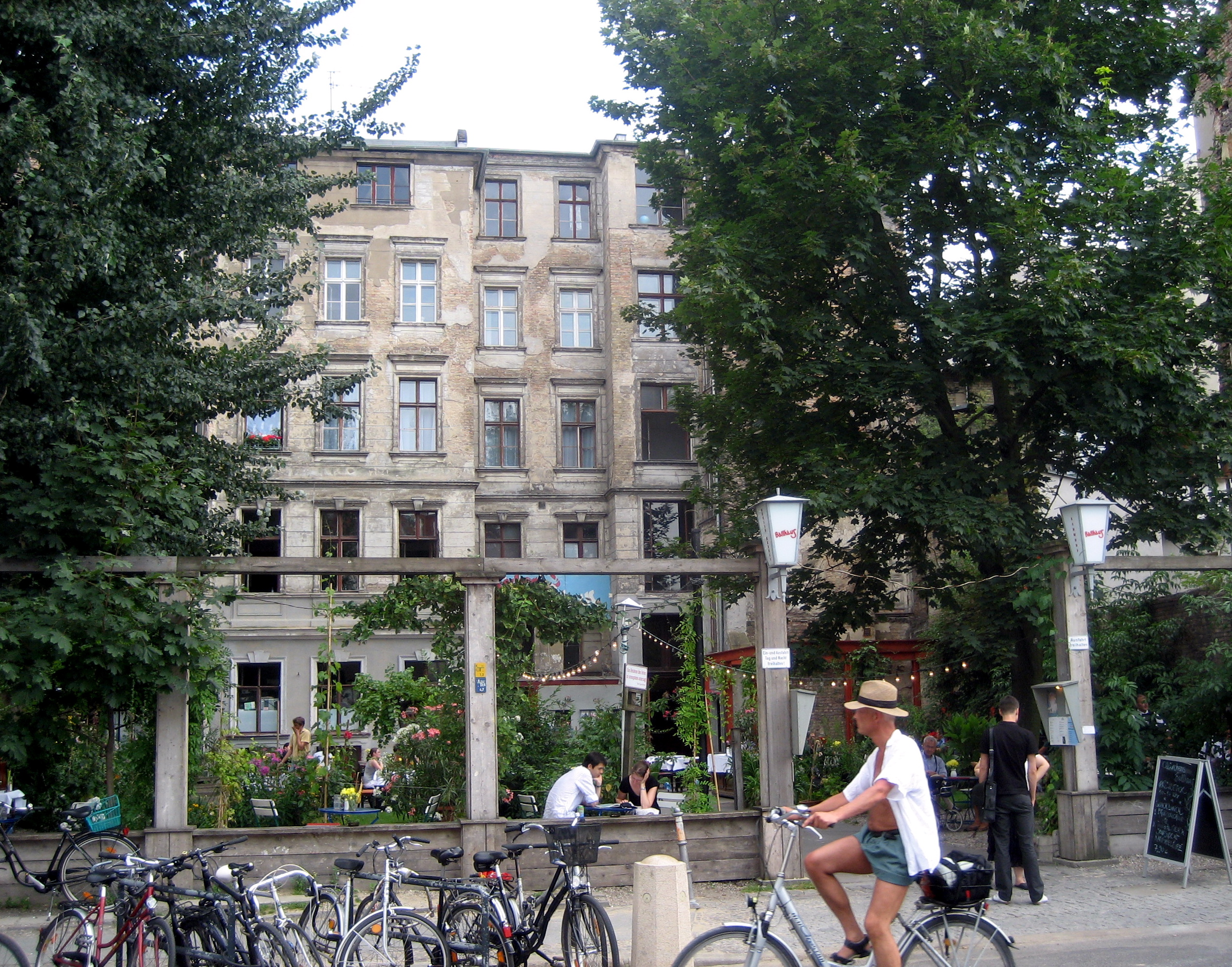 Clärchens Ballhaus, Auguststraße 24, Berlin. That street and its neighbors were by far my favorite part of Berlin. The art galleries are stacked in there, and there are cafes and artists' workspaces and interesting shops (like an open-source software center, design stores, and bookshops) and cafes like this one. The open area in front is a cafe; the inside is a dance/performance space, I believe.